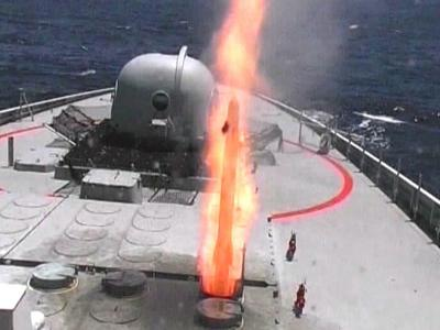 Vertical-launch Umkhonto IR Missile being launched from South African Valour Class Frigate